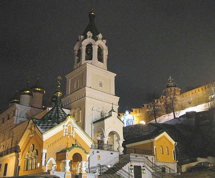 Nizhny Novgorod, Ioanna Predtechi (John the Baptist) Church (near Volga river). Walls of the Kremlin in the rear